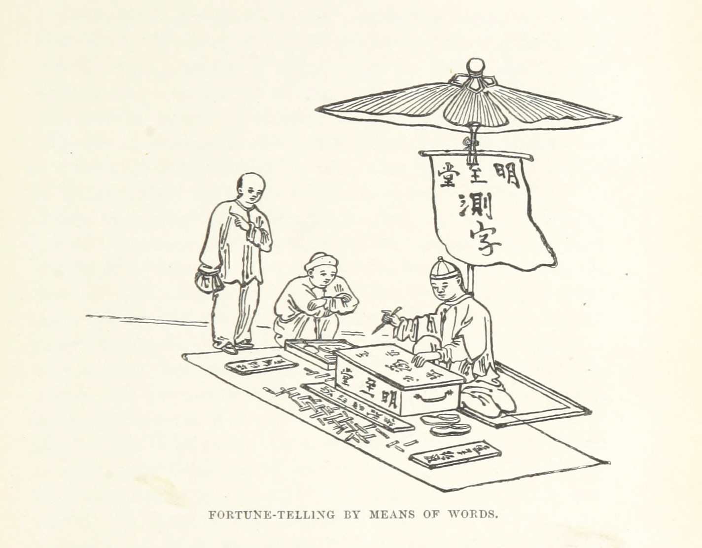 fortune telling by means of words.jpg